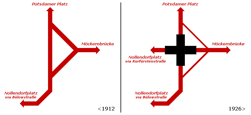 Scheme of the old and new track lay-out at Gleisdreieck, Berlin U-Bahn